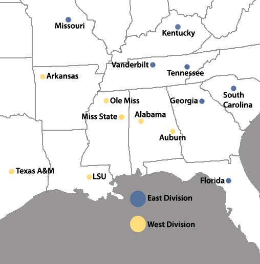 Updated with grey background & names written in black